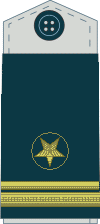 Serbian military ranks and insignia